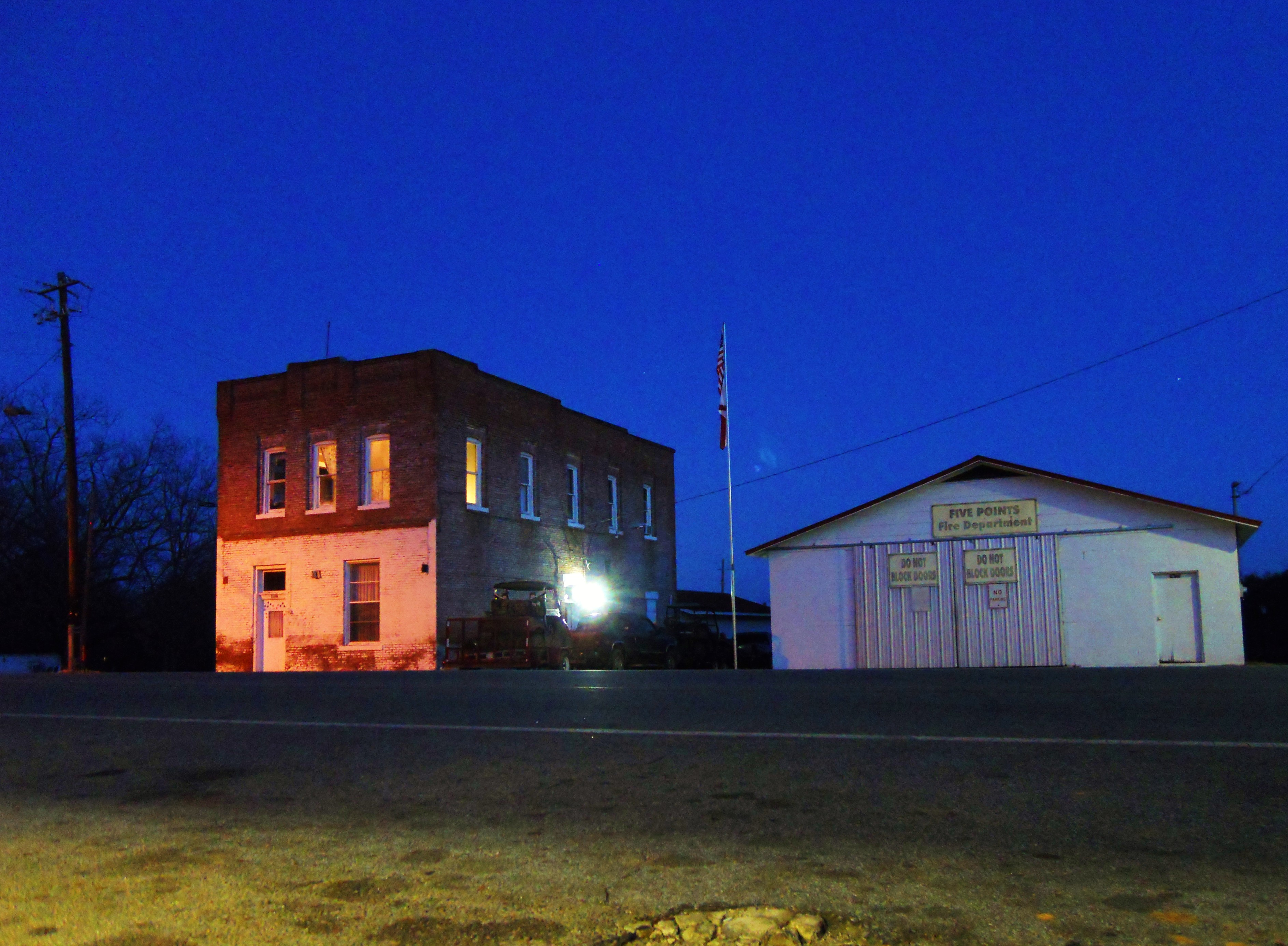 This is a photo of Five Points, Alabama.